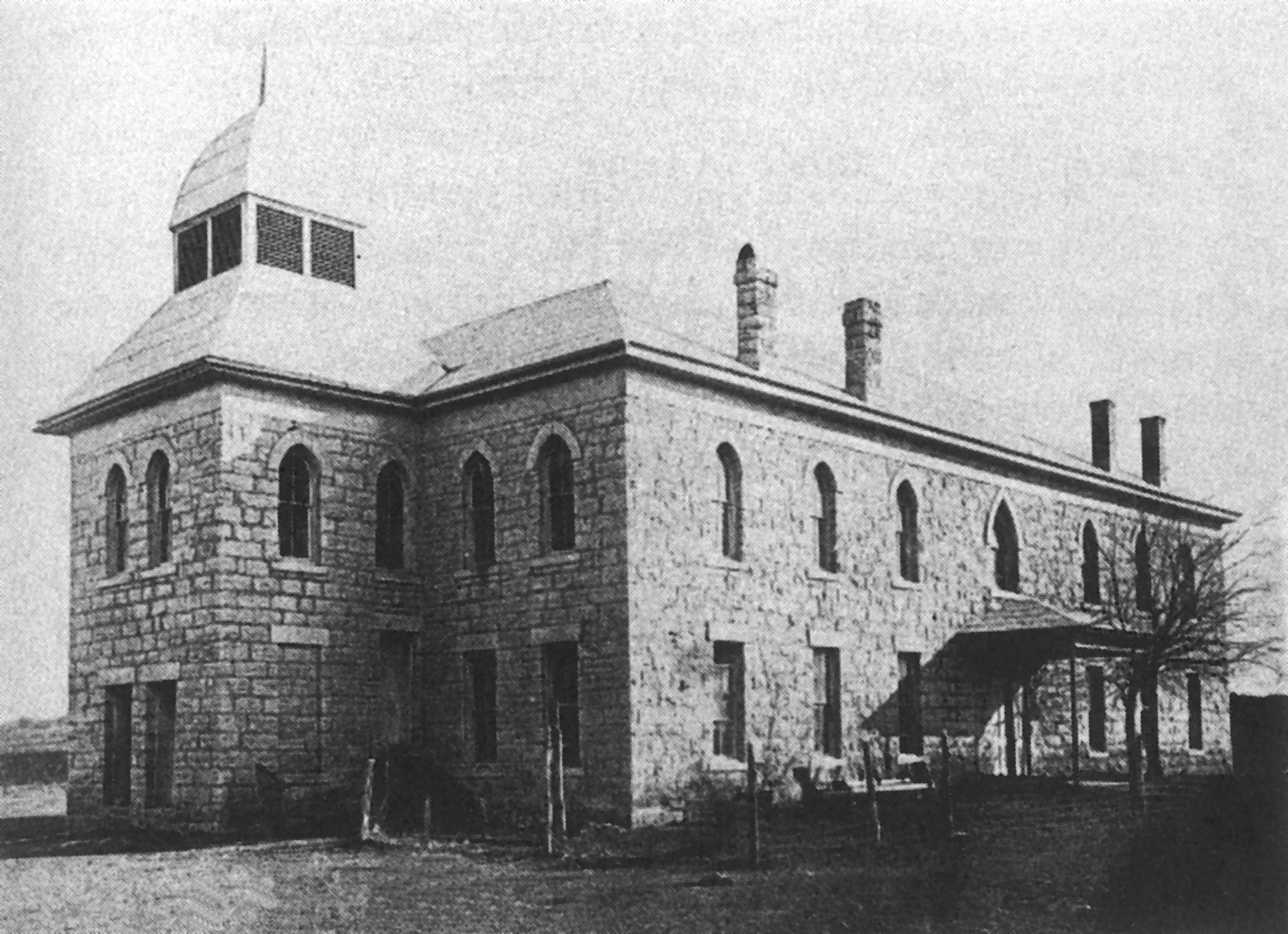 picture of the original school house in Copperas Cove located at Avenue E Street at the eastern edge of town